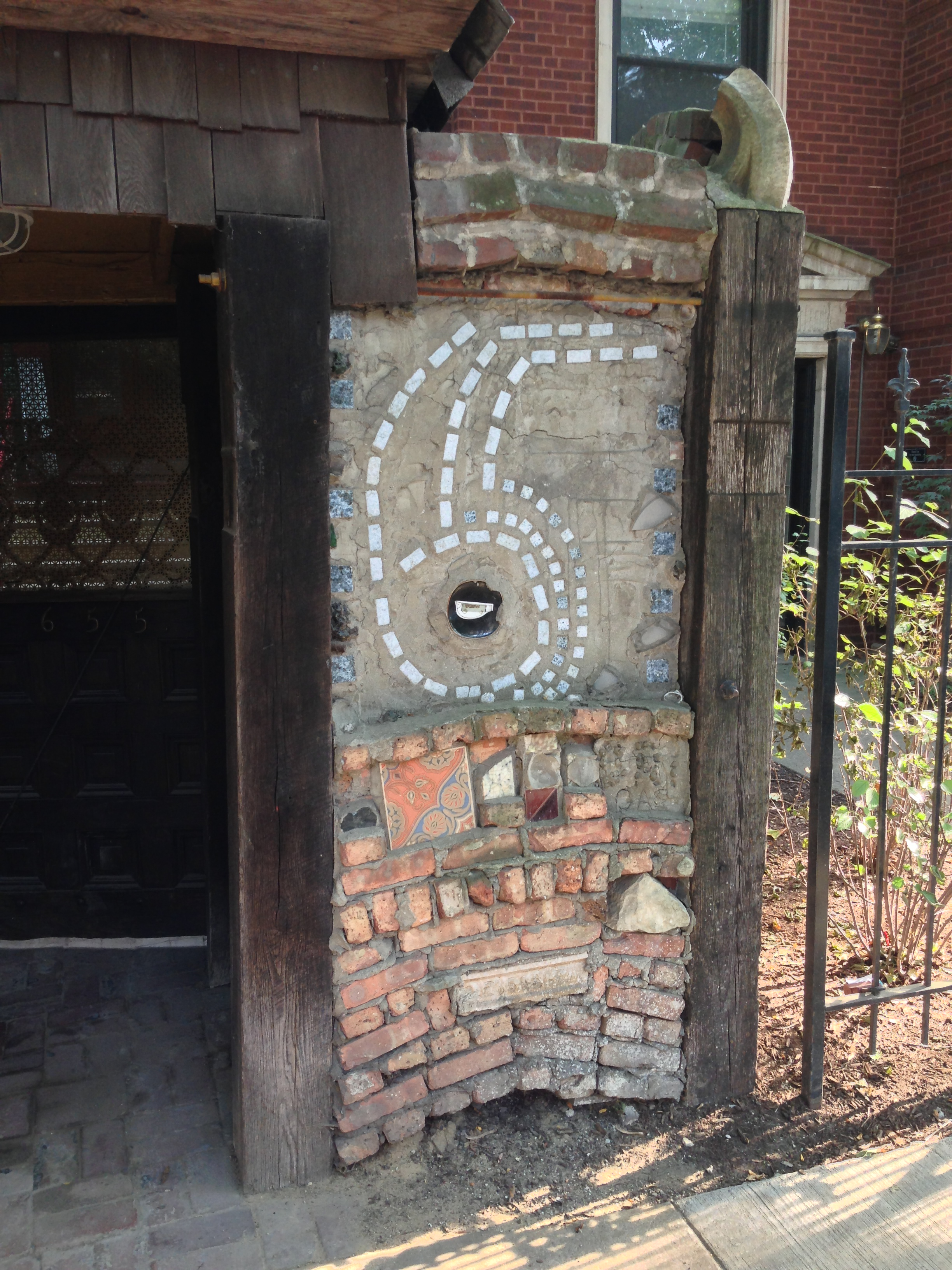 655 wrightwood address on wall in Chicago